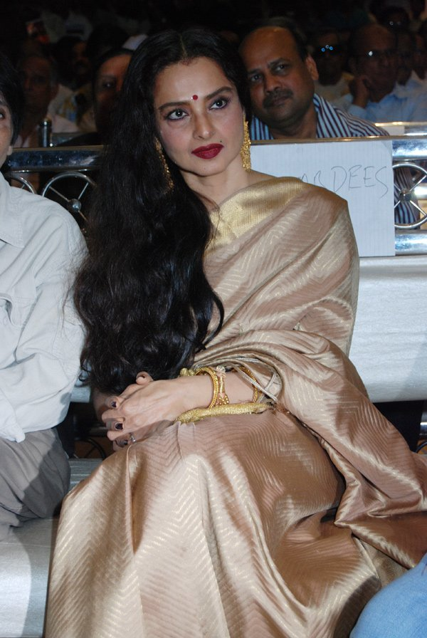 IMPPA honours Rekha, Prakash Mehra, Madhur, Bhushan Kumar